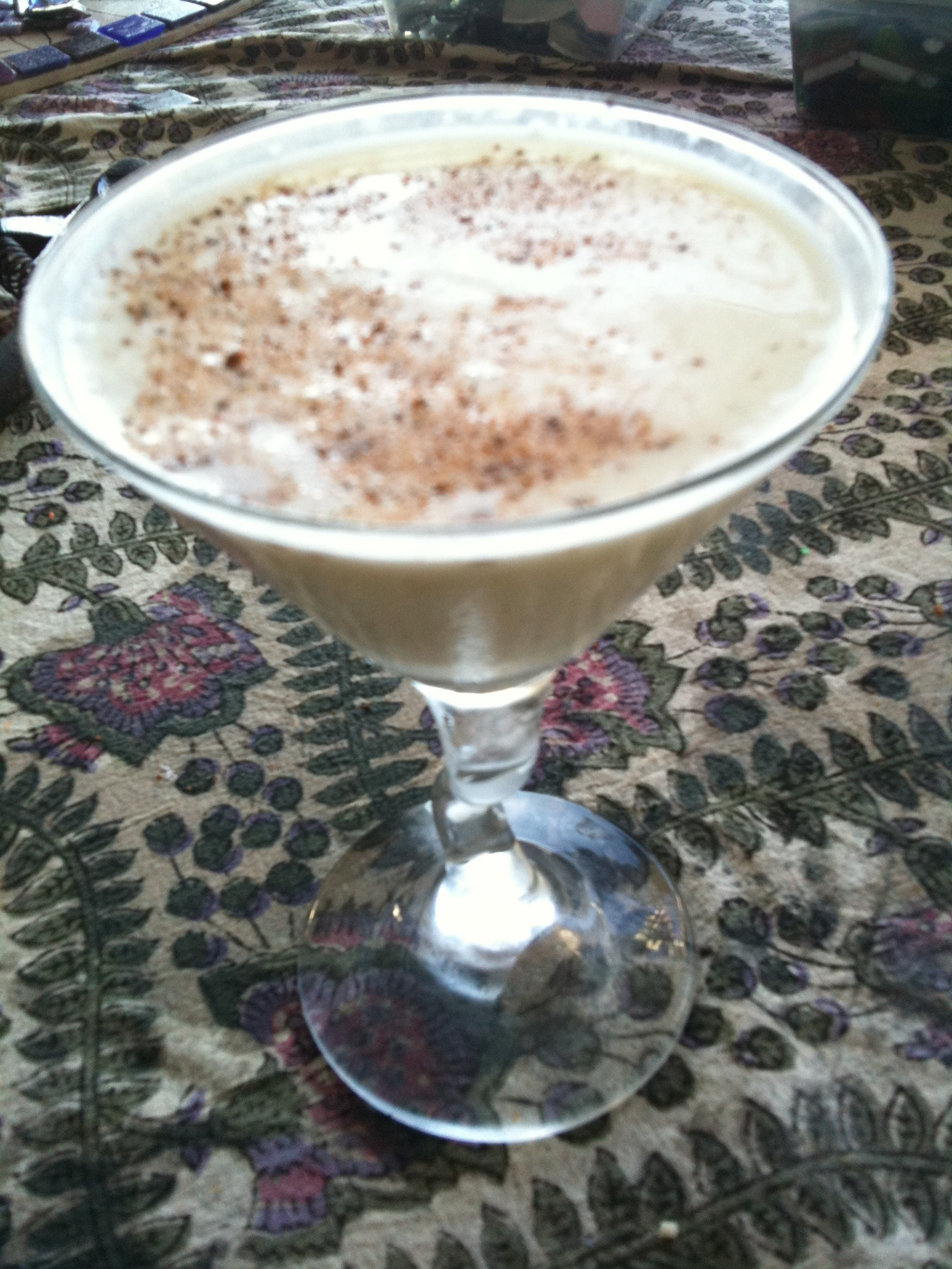 Gin, cream, creme de cacao shaken with ice